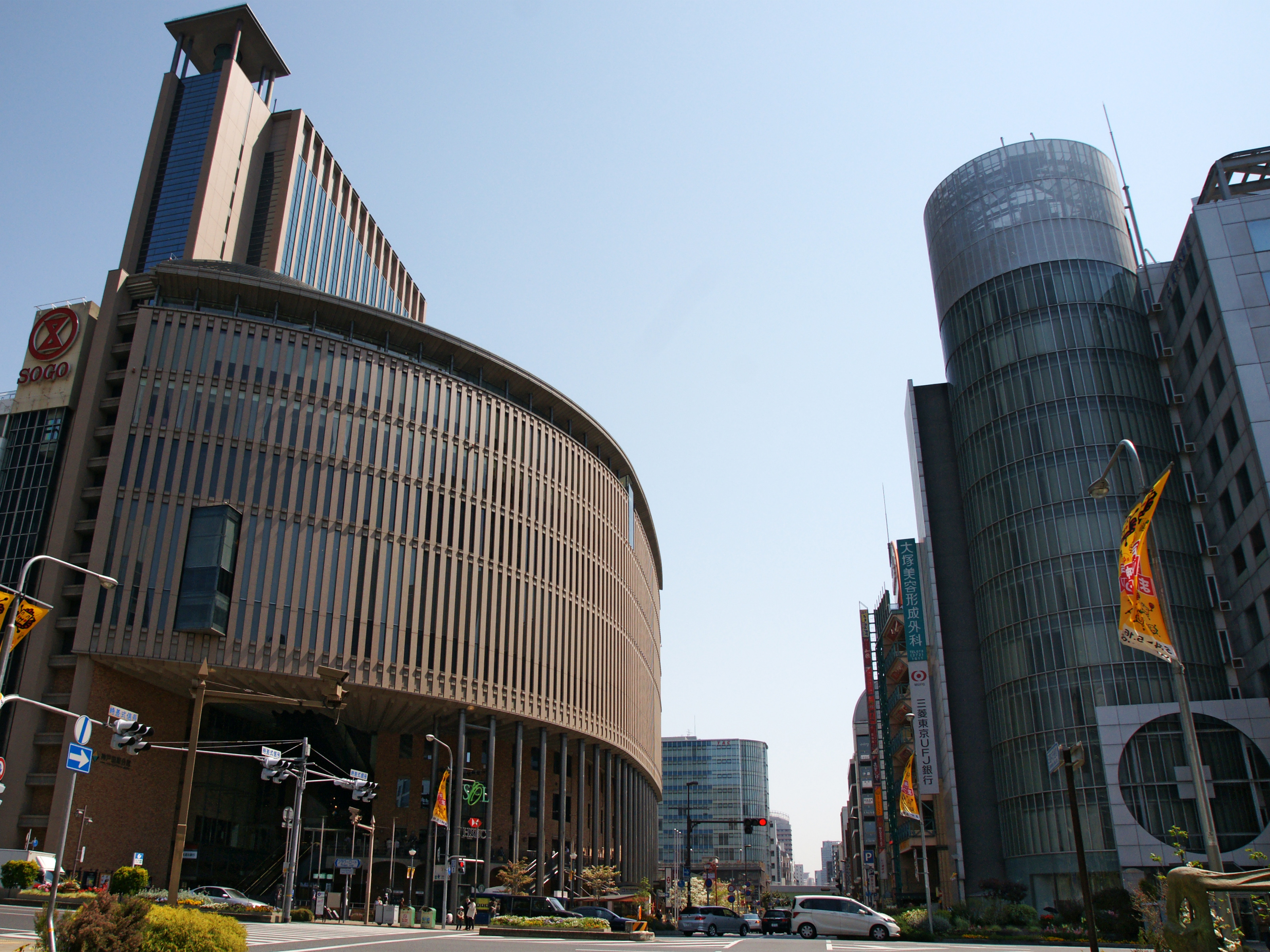 Sannomiya, Kobe, Hyogo prefecture, Japan